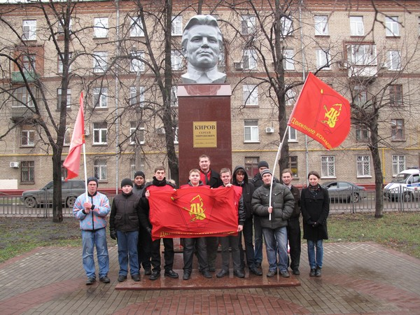 Киров 2011